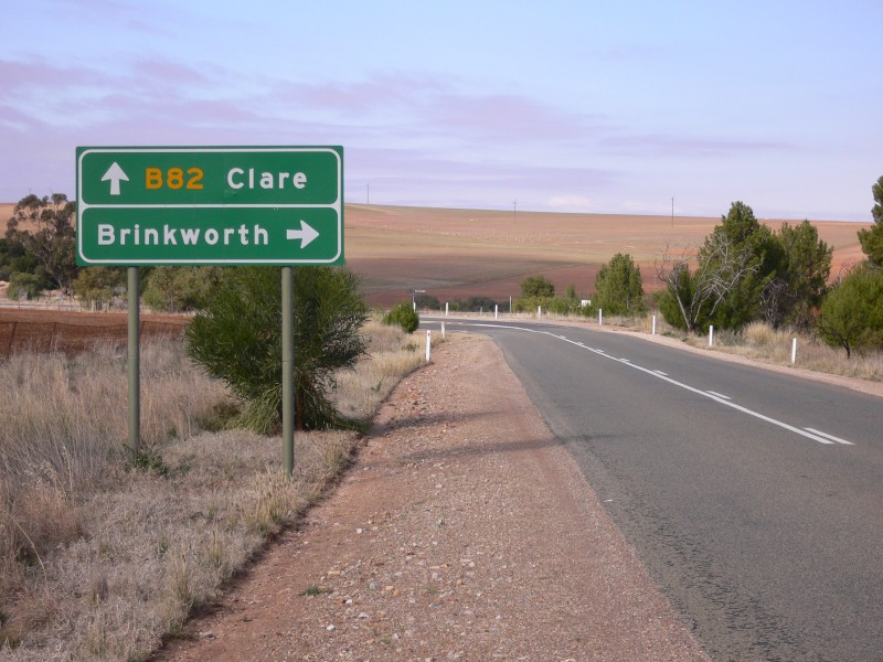 Thomas Siefert, South Australia 2005 This image is facing south on the B82|Main North Road|B82 (Main North Road), situated north of Clare|Clare, South Australia|Clare.